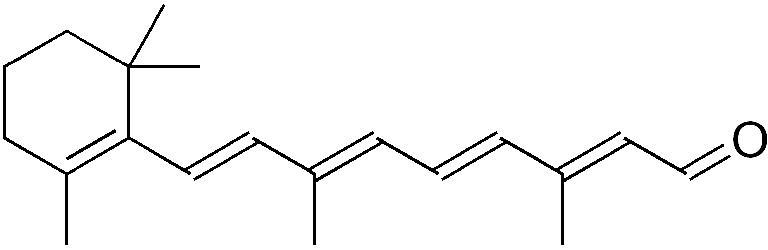 chemical structure of retinal